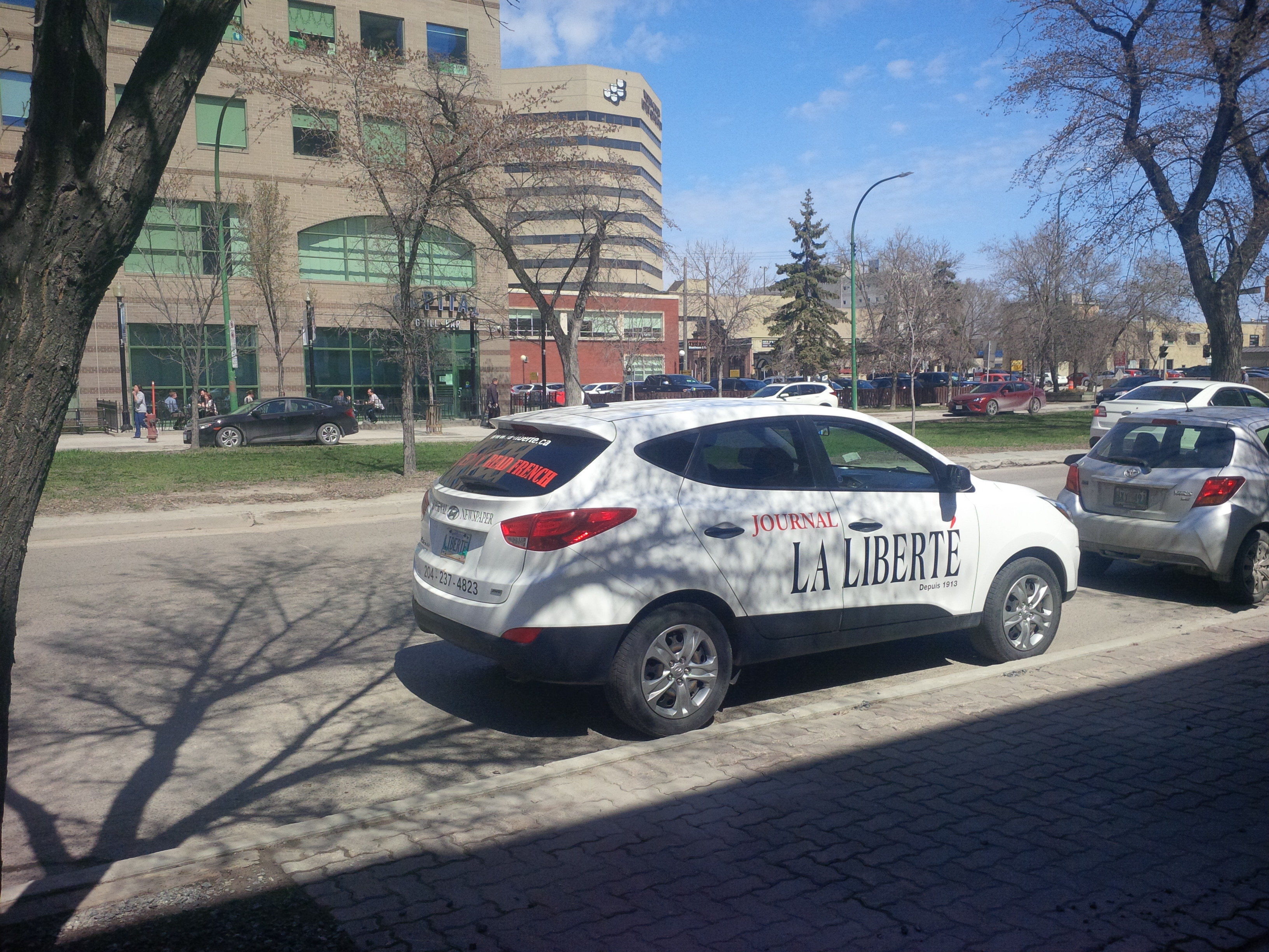 A reporters car from the La Liberte newspaper based in St. Boniface, Manitoba.